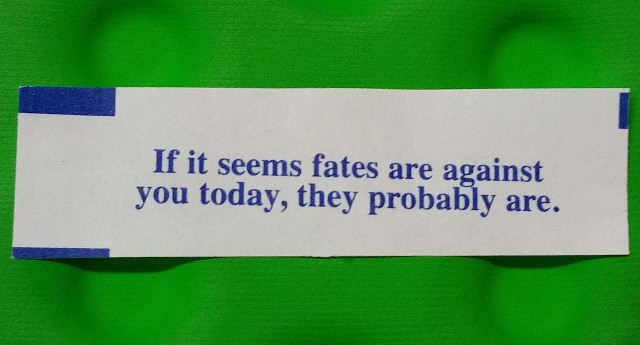 Unusual non-positive aphorism found in a fortune cookie. Manufacturer unknown, although on the plastic wrap was printed "Distributed by Good Choice Trading, Hayward, CA 94545". The object depicted is too simple to be eligible for copyright, because it consists only of a few letters or words.